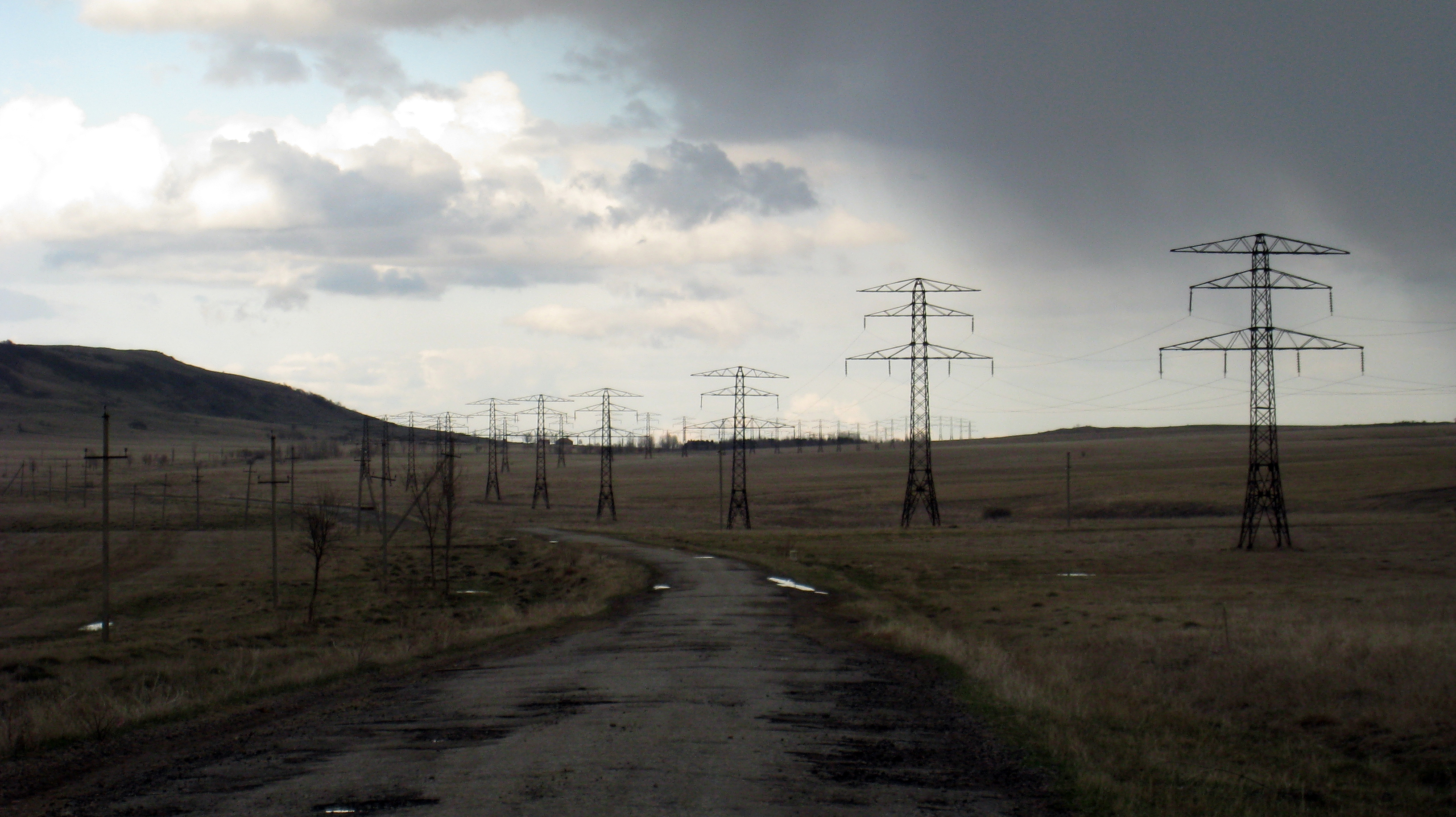 on the way to Tsalka